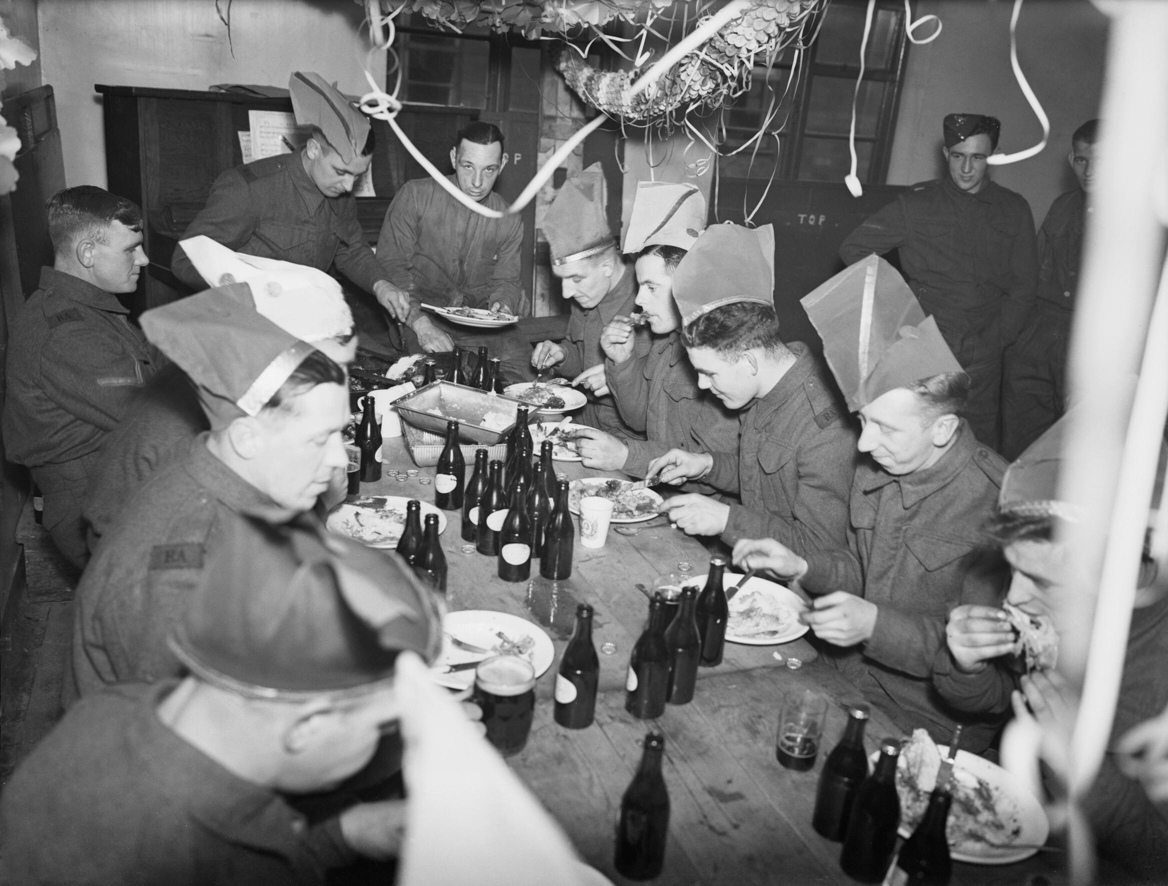 The British Army in the United Kingdom 1939-45 Christmas lunch for gunners of 289th Battery, 93rd Heavy Anti-Aircraft Regiment, Royal Artillery, at New Ferry near Birkenhead, 14 December 1940.